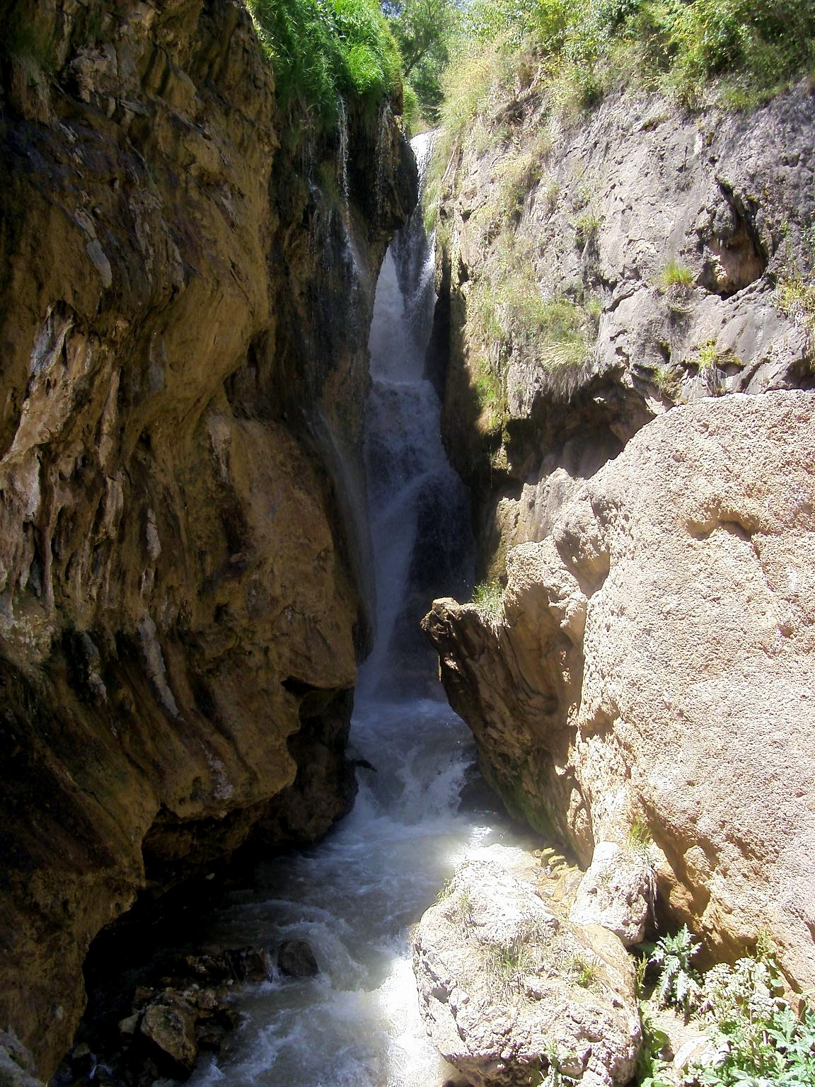 Gol-Akhoor waterfall, Varzaqan, Iran